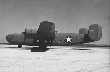 A Consolidated C-87-CF Liberator Express transport plane (s/n 41-11657) in October 1942.